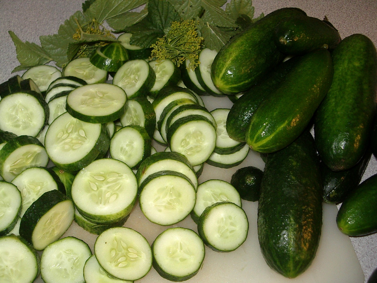 Cucumbers